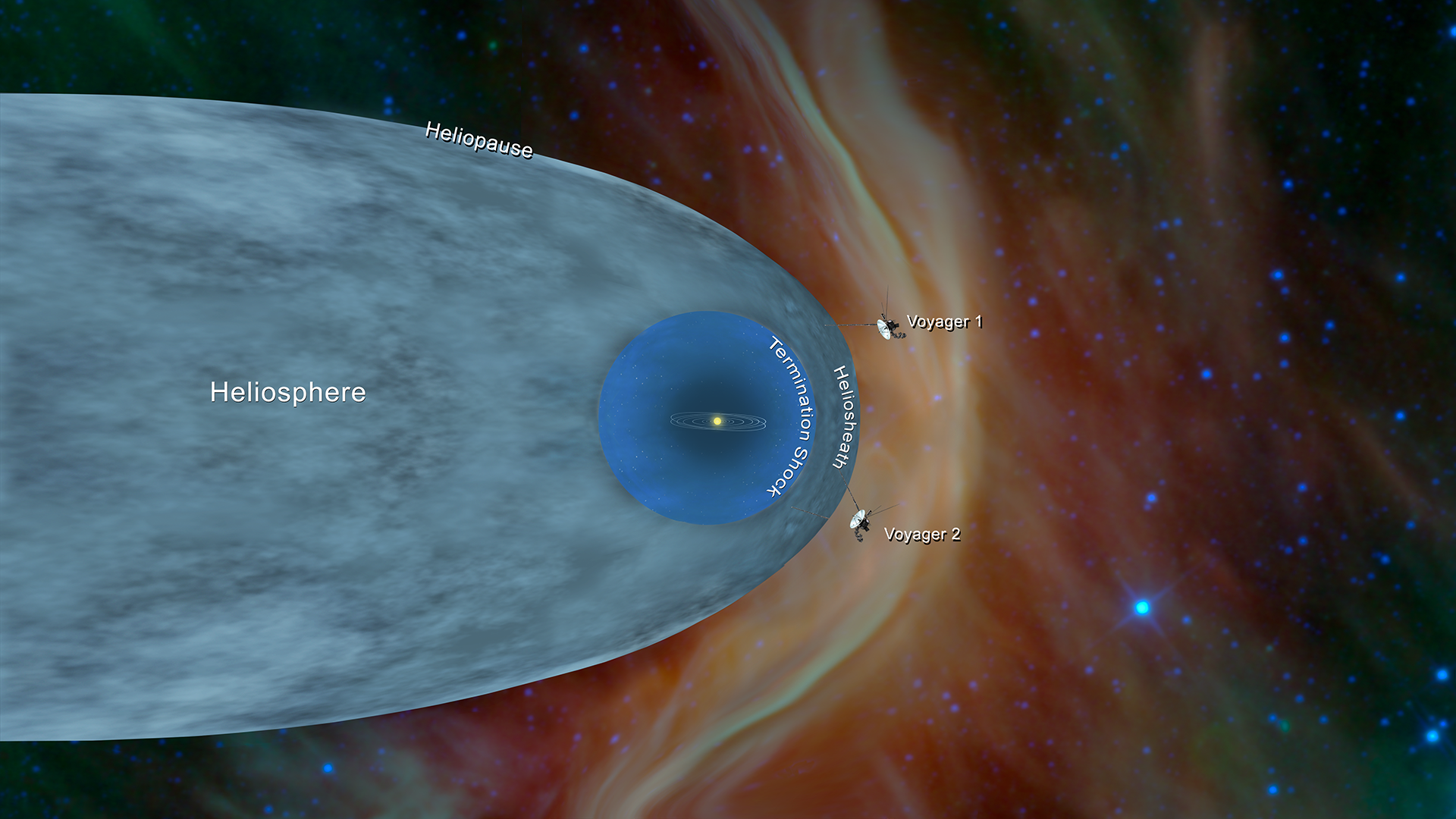 PIA22835: Two Interstellar Travelers This illustration shows the position of NASA's Voyager 1 and Voyager 2 probes, outside of the heliosphere, a protective bubble created by the Sun that extends well past the orbit of Pluto. Voyager 1 crossed the heliopause, or the edge of the heliosphere, in August 2012. Heading in a different direction, Voyager 2 crossed another part of the heliopause in November 2018. One of the annotated images below shows plasma flow lines both inside and outside the heliopause. The direction of the solar plasma is different from the direction of the interstellar plasma. The Voyager spacecraft were built by JPL, which continues to operate both. JPL is a division of Caltech in Pasadena. California. The Voyager missions are a part of the NASA Heliophysics System Observatory, sponsored by the Heliophysics Division of the Science Mission Directorate in Washington. For more information about the Voyager spacecraft, visit and